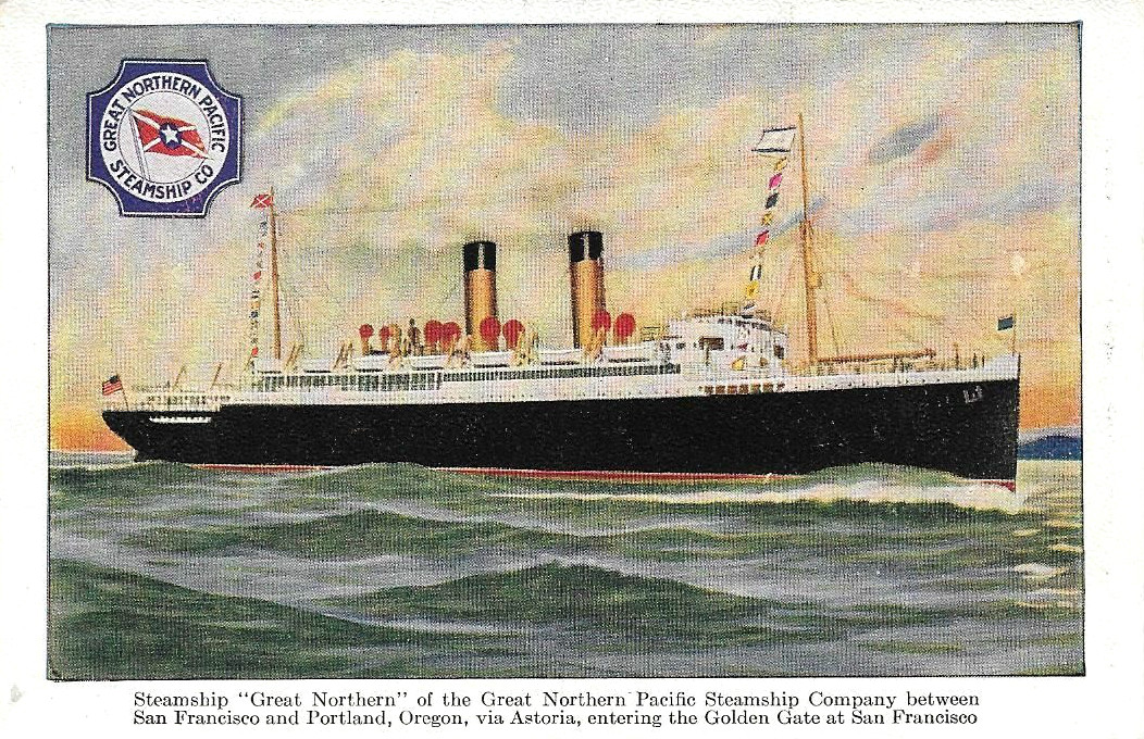 Postcard for the Great Northern Pacific Steamship Company. The company was formed by Great Northern Railway baron James Hill and was intended to compliment the railway.